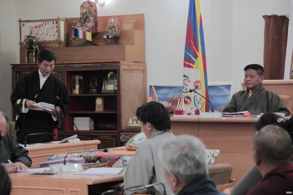 5th Tibetan Parliament session